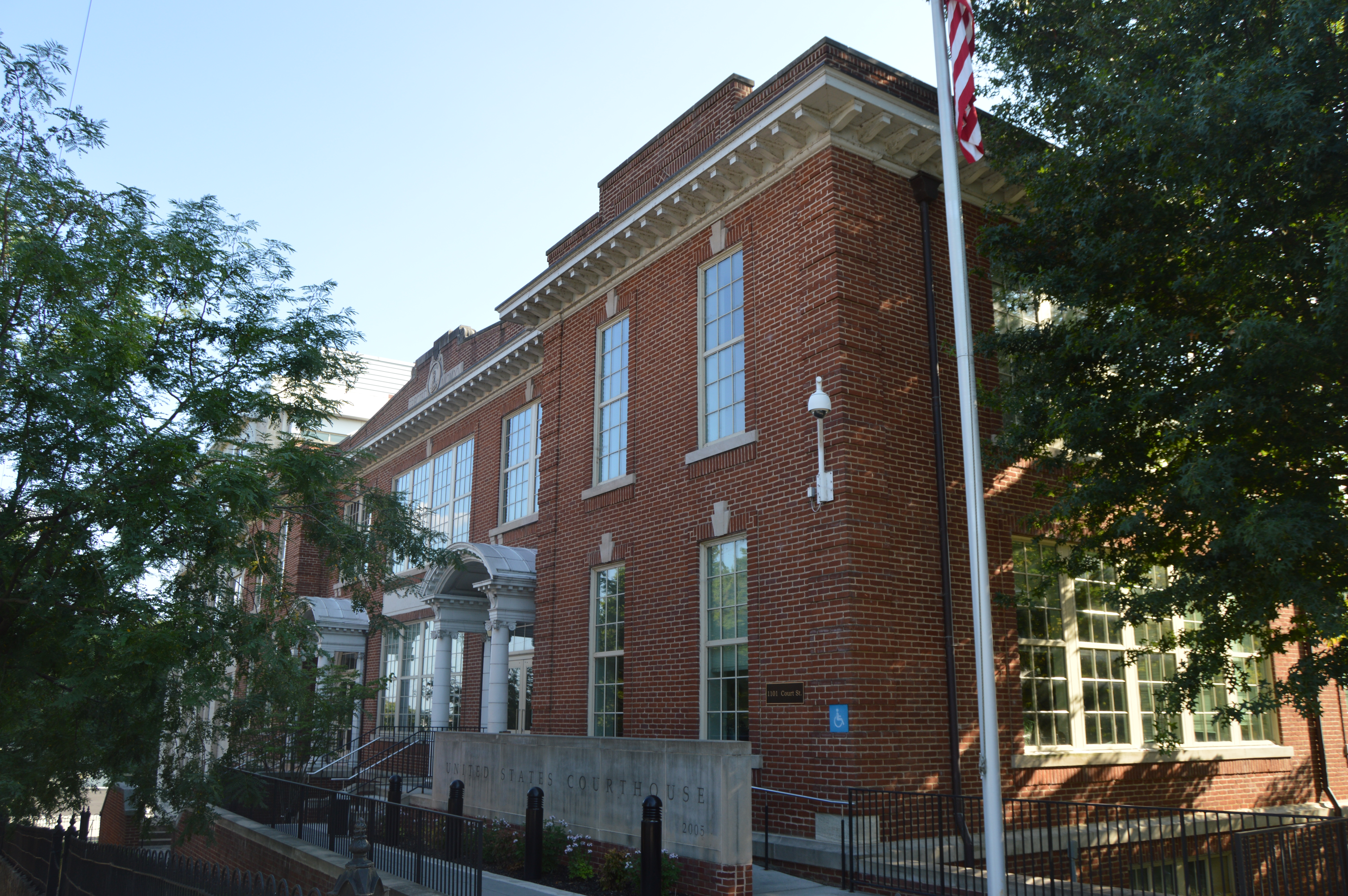 Front of the federal courthouse for the Lynchburg division of the Western District of Virginia, located at 1101 Court Street in Lynchburg, Virginia, United States.